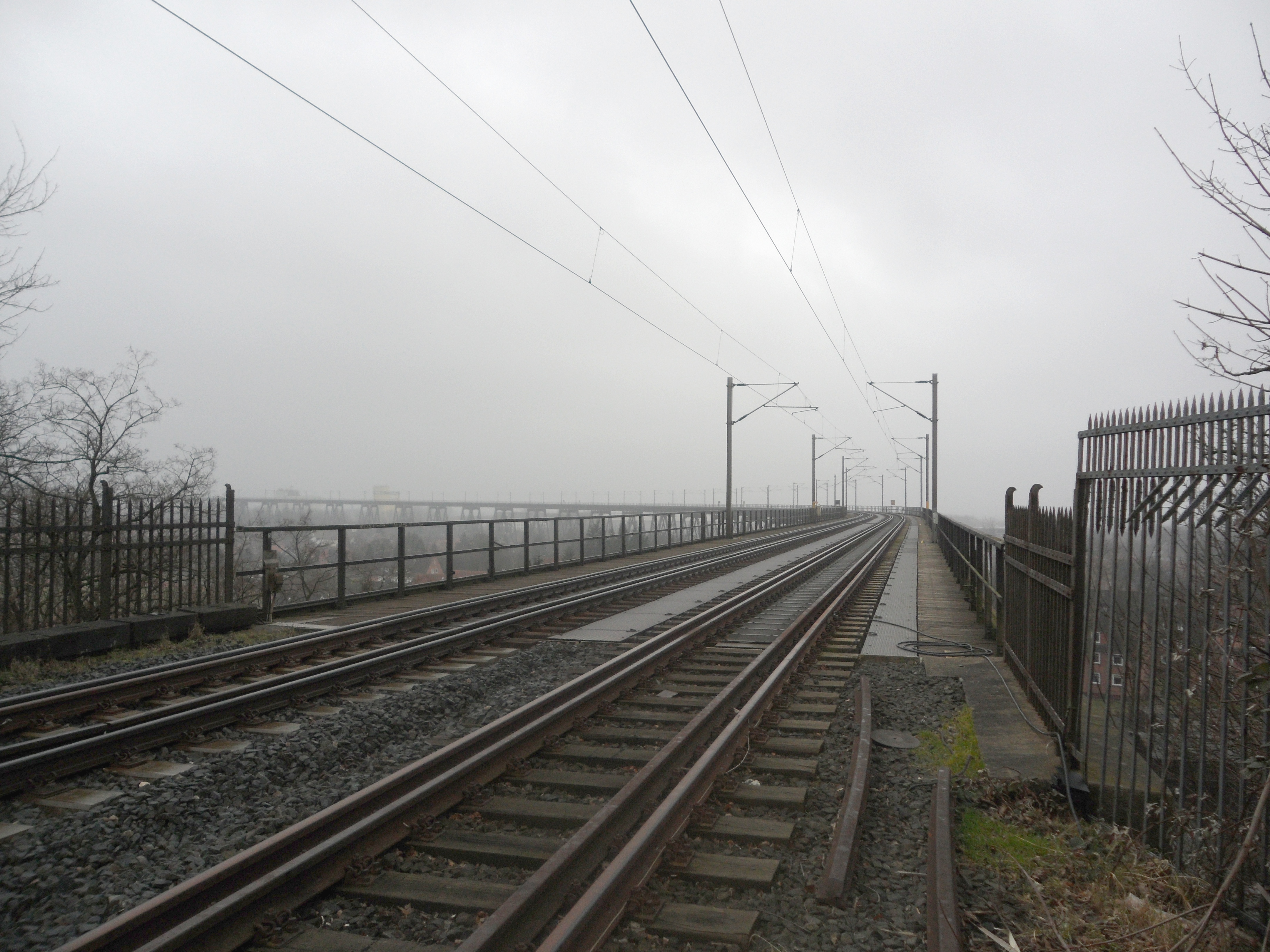 Rendsburger Hochbrücke, view from north from up there